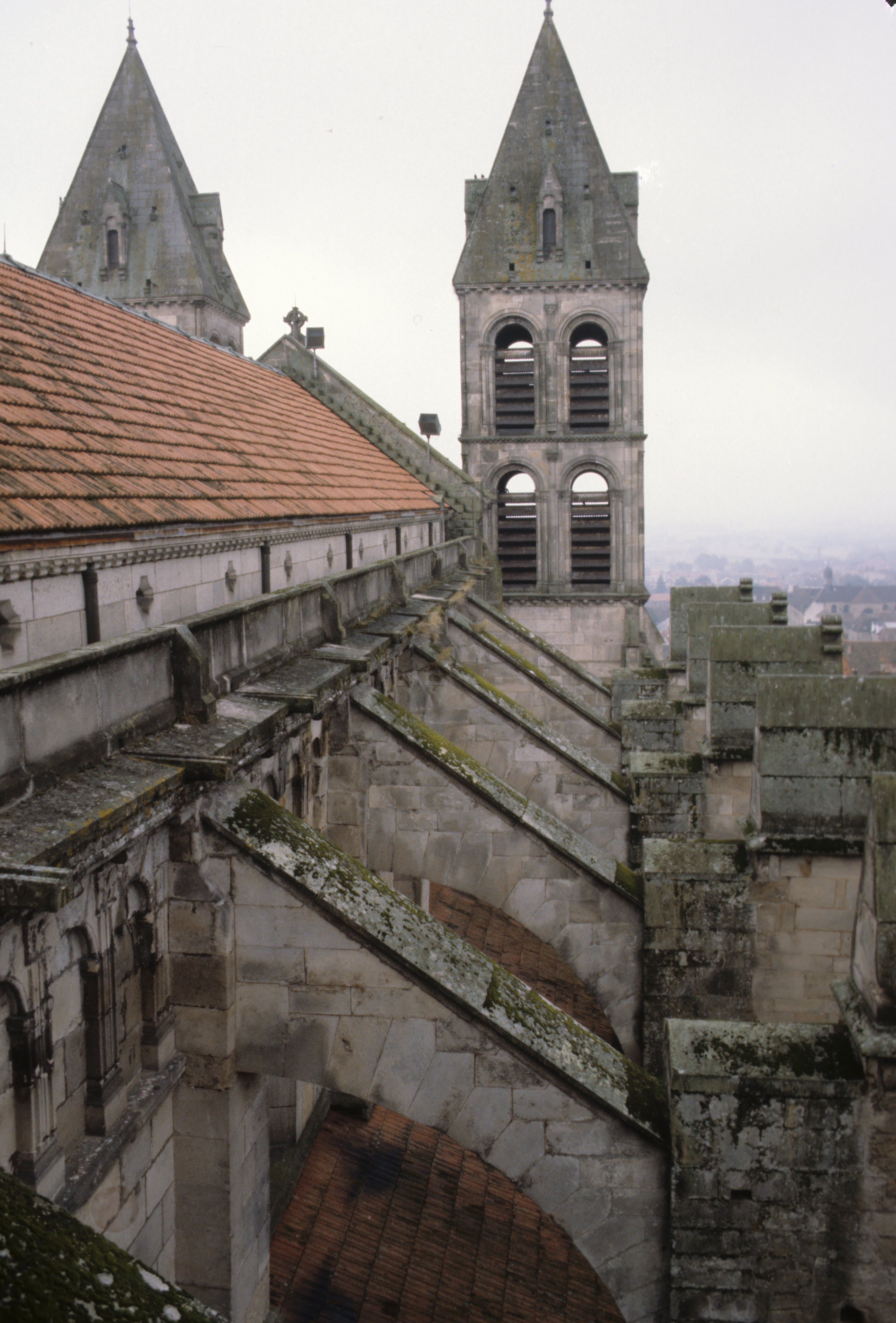 View of nave buttresses, Autun cathedral